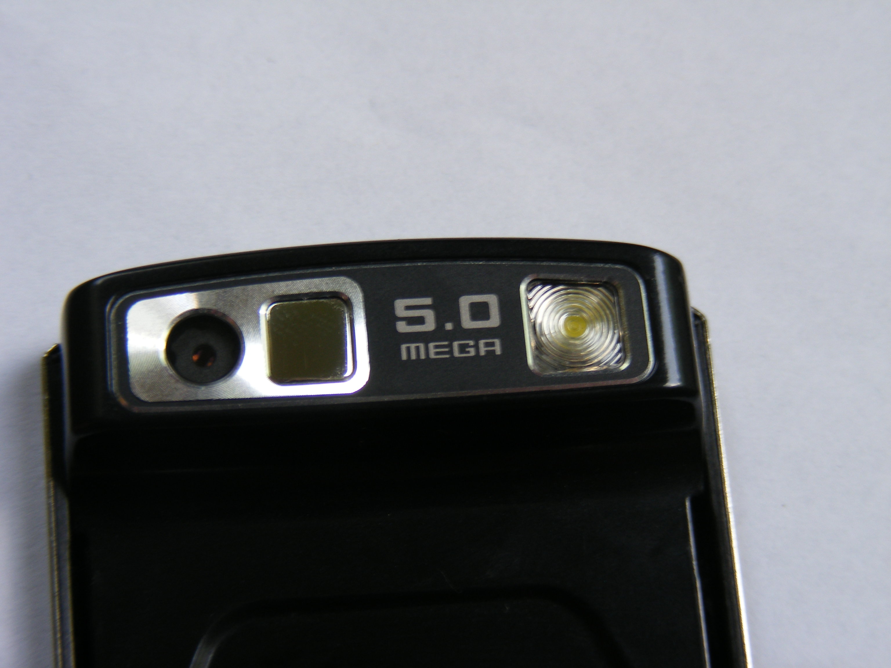 It is a Samsung SGH-U900's camera.